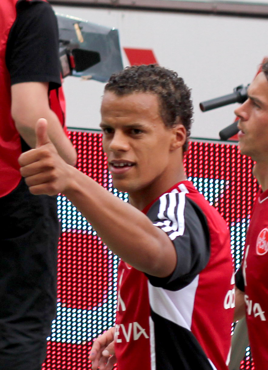 Timothy Chandler, football player of German 1st Bundesliga team 1. FC Nürnberg, on matchday 6 (home match against Werder Bremen) of 2011/12 season